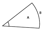 Angle